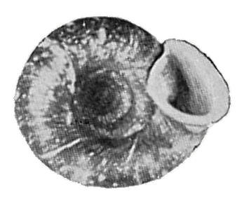 Black-and-white photo of an umbilical view of a shell of Gudeodiscus messageri.